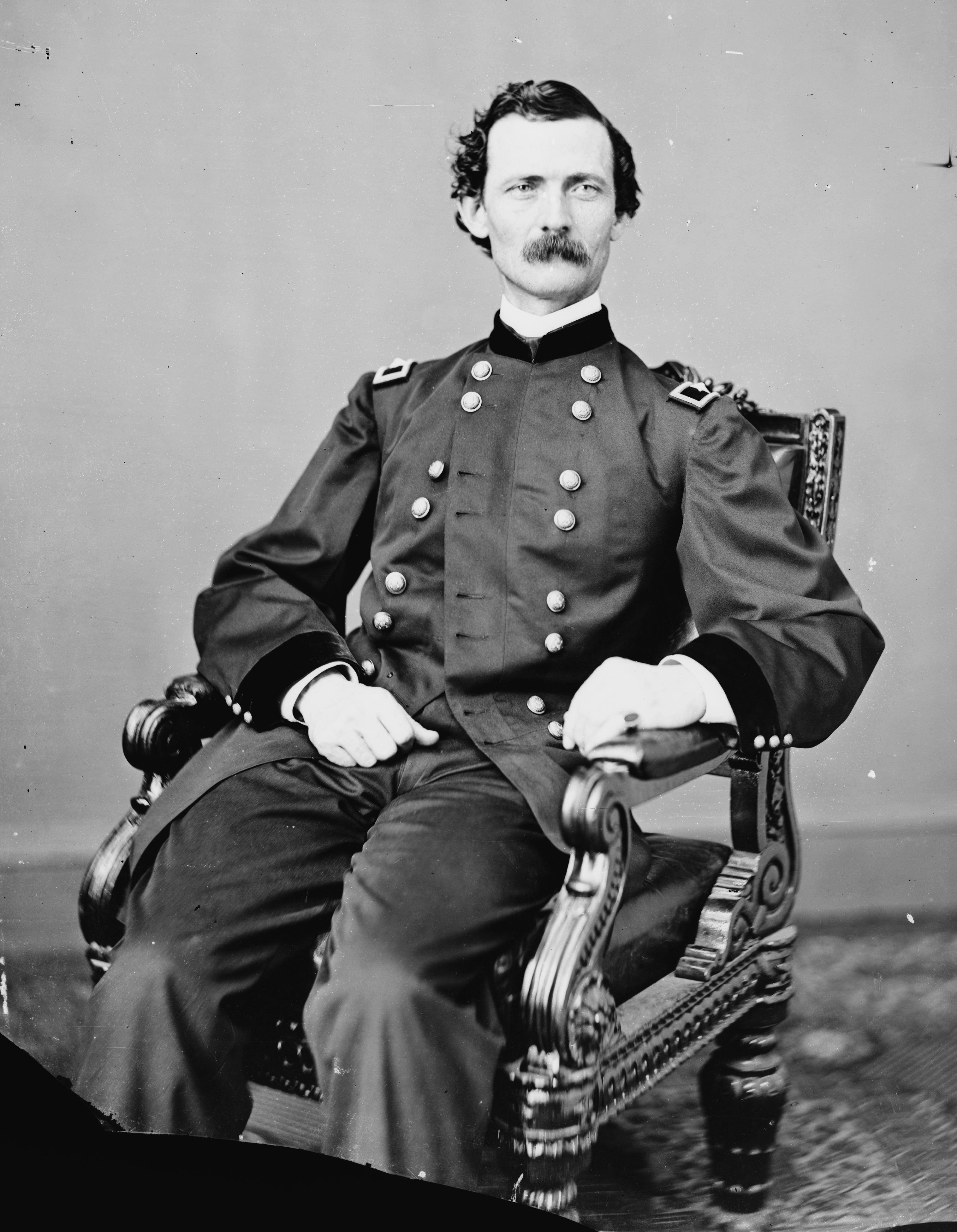 James Barnet Fry. Library of Congress description: "General J. B. Fry"